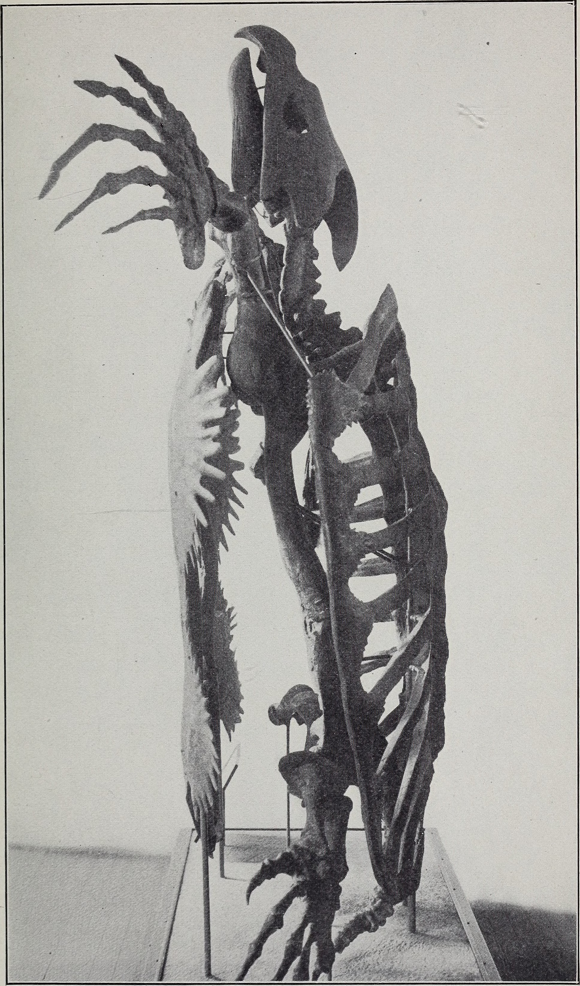 Title: The American journal of science Year: 1880 (1880s) Authors: Subjects: Science Publisher: New Haven : J. D. & E. S. Dana Text Appearing Before Image: Am. Jour. Sci., Vol. XXVII, 1909. Plate IV. Text Appearing After Image: Archelon ischyros Wieland.—Photograph of lateral view of the type as now mounted in the Yale University Museum. (Plastron in approximate position.)